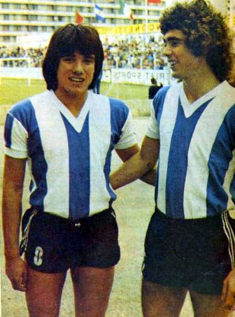 Marcelo Trobbiani (left) and Alberto Tarantini with Argentina at the Toulon Tournament